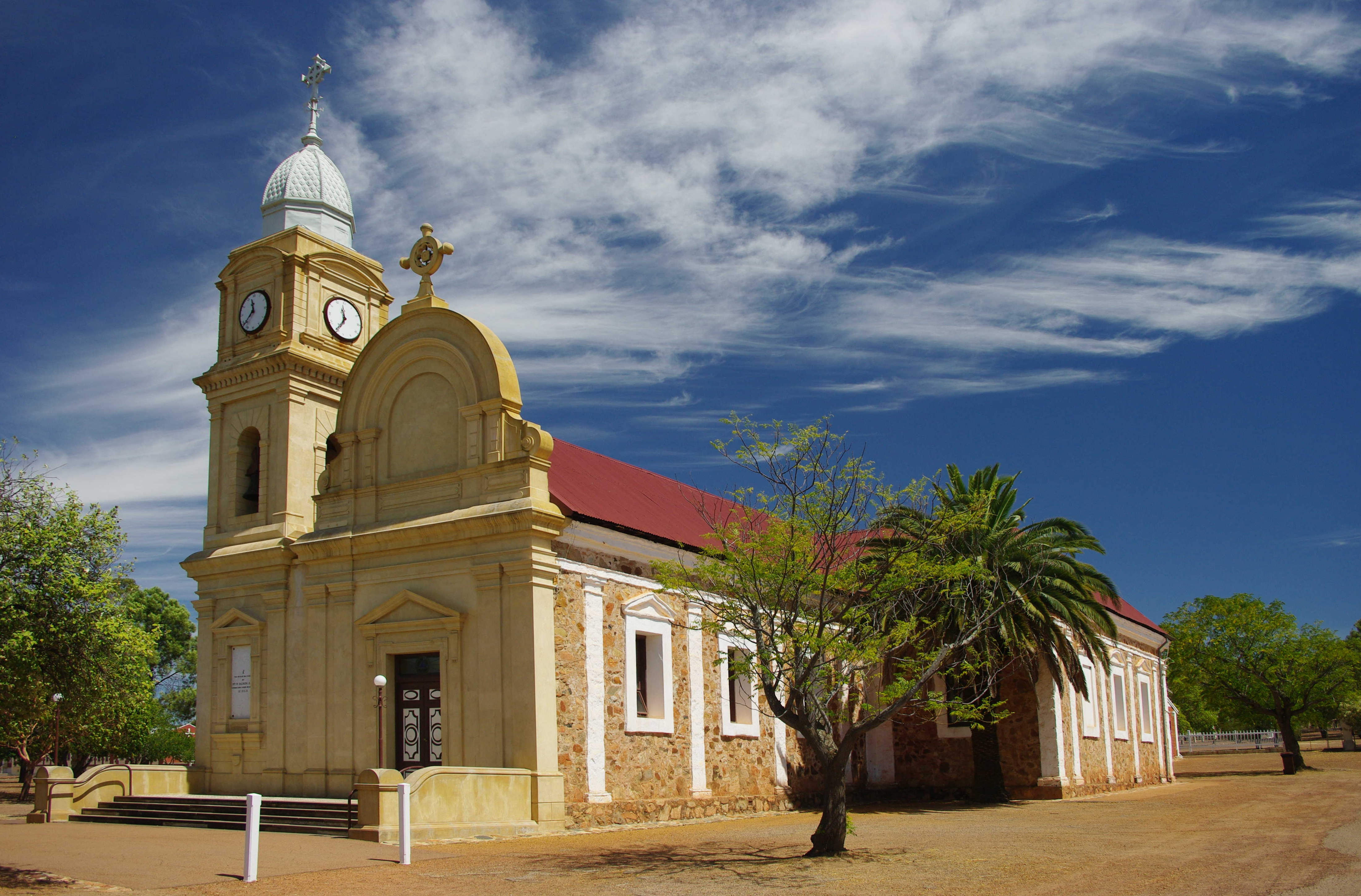 The Abbey church of New Norcia in Western Australia. This is the resting place of Dom Rosendo Salvado, the founder of New Norcia and its monastery.